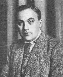 Efim Bogoljubov (chess player)